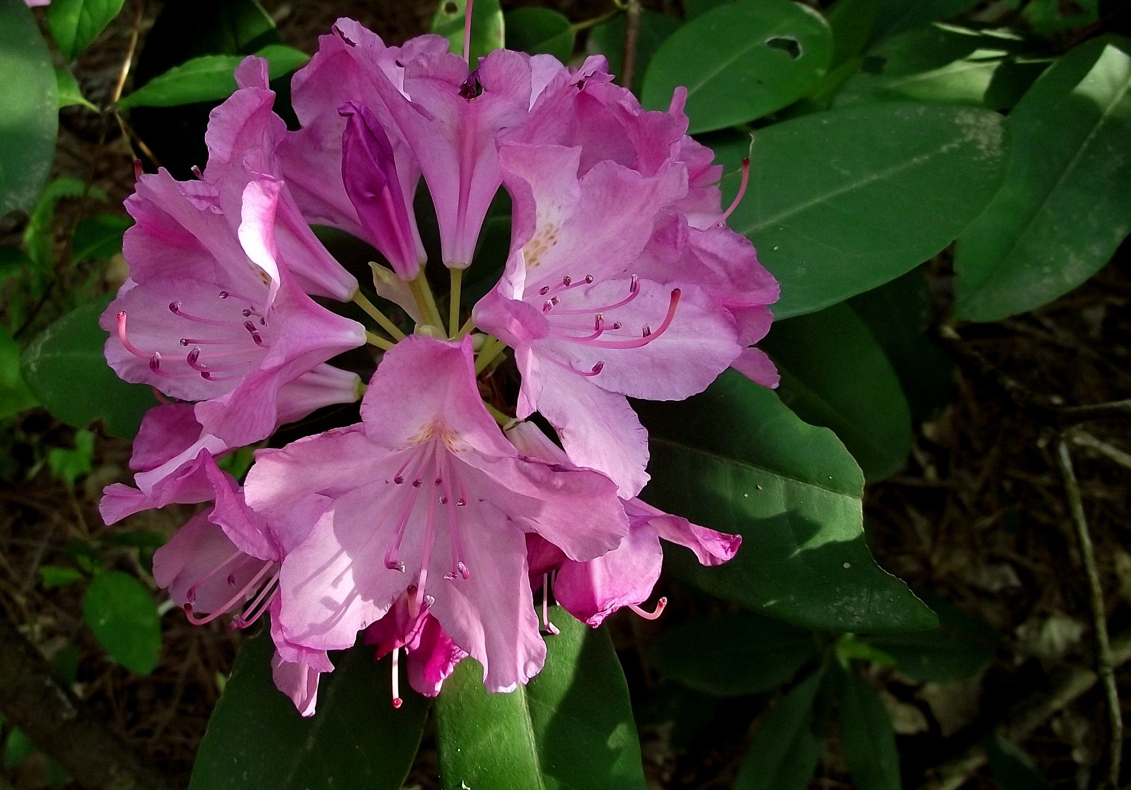 Shot while walking in woods